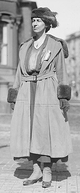 American civil engineer, architect, and suffragist Nora Stanton Blatch Barney (1883–1971)